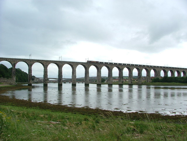 The Royal Border Bridge This famous railway bridge in Berwick upon Tweed is not actually on the border as its name suggests, as the Scottish border is about 3 miles north of here. It was built by Robert Stephenson and opened by Queen Victoria in 1850, thus completing the line of railway linking London and Edinburgh.